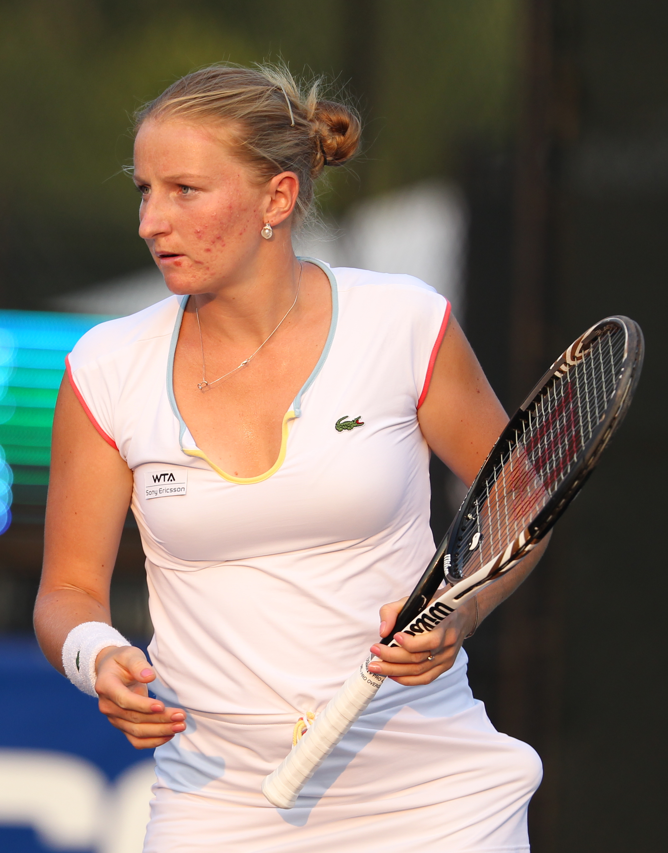 Citi Open Tennis July 29, 2011